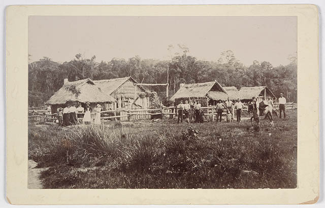 Note: 15 May 1811 is Paraguay's Independence Day Format: Photograph Find more detailed information about this photograph: .au/item/itemDetailPaged.aspx?itemID=421302 Information about photographic collections of the State Library of New South Wales: .au/search/SimpleSearch.aspx From the collection of the State Library of New South Wales